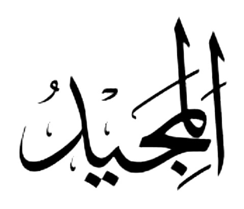 Al-Majīd / All-Glorious / The Majestic is a name of God in Islam, is a name of Allah.